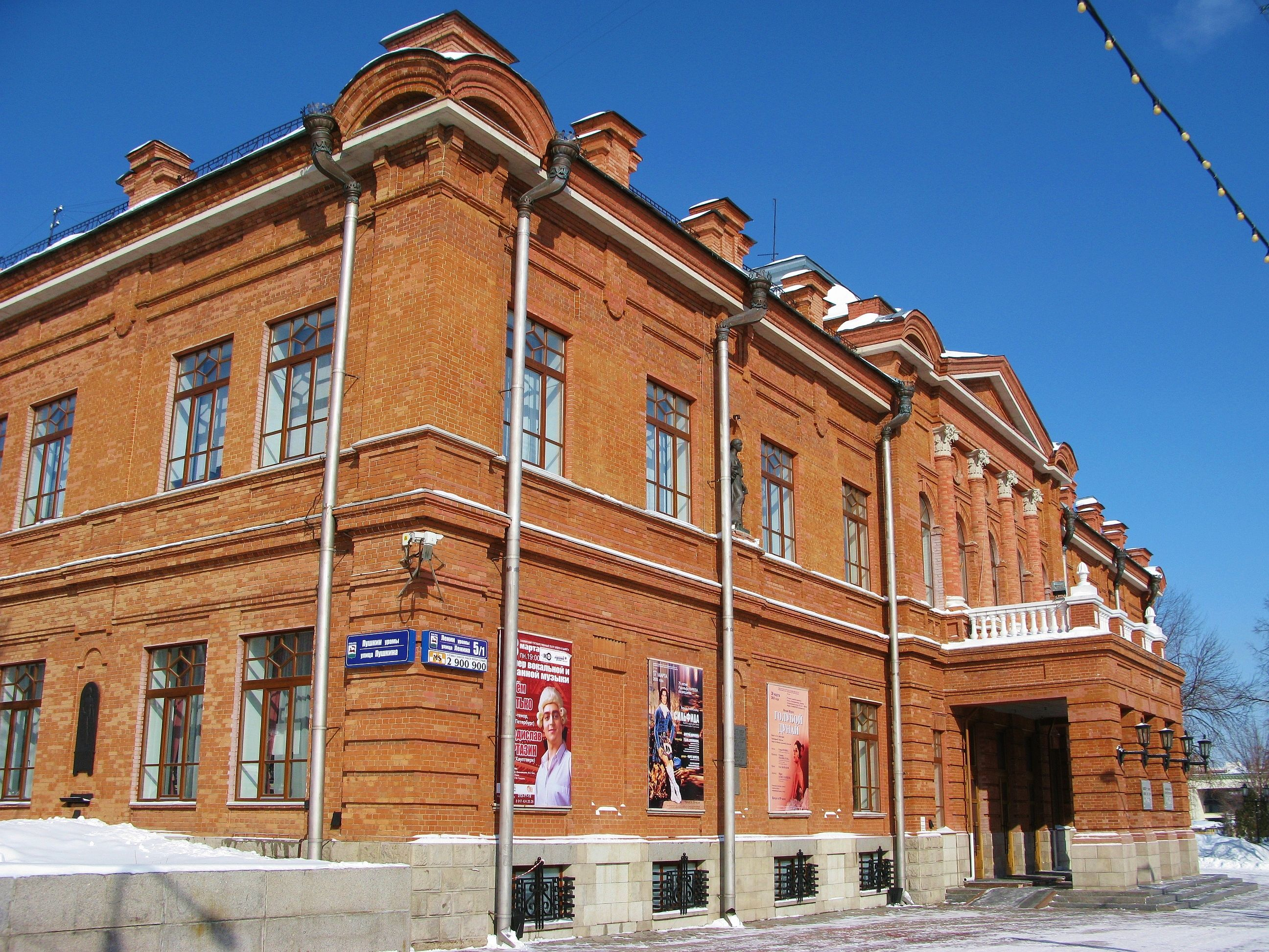 Culture of Ufa